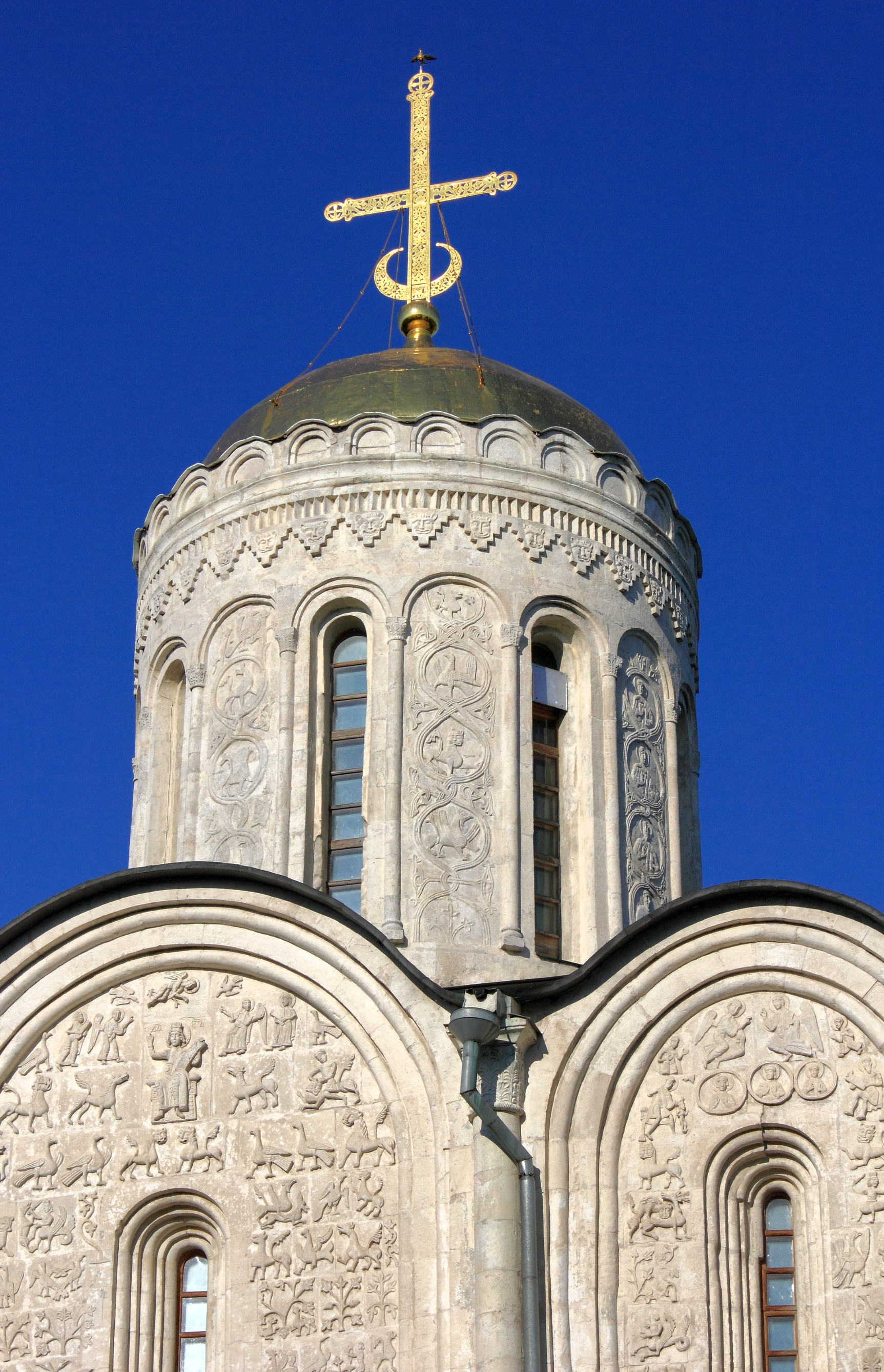 Vladimir. Cathedral of Saint Demetrius